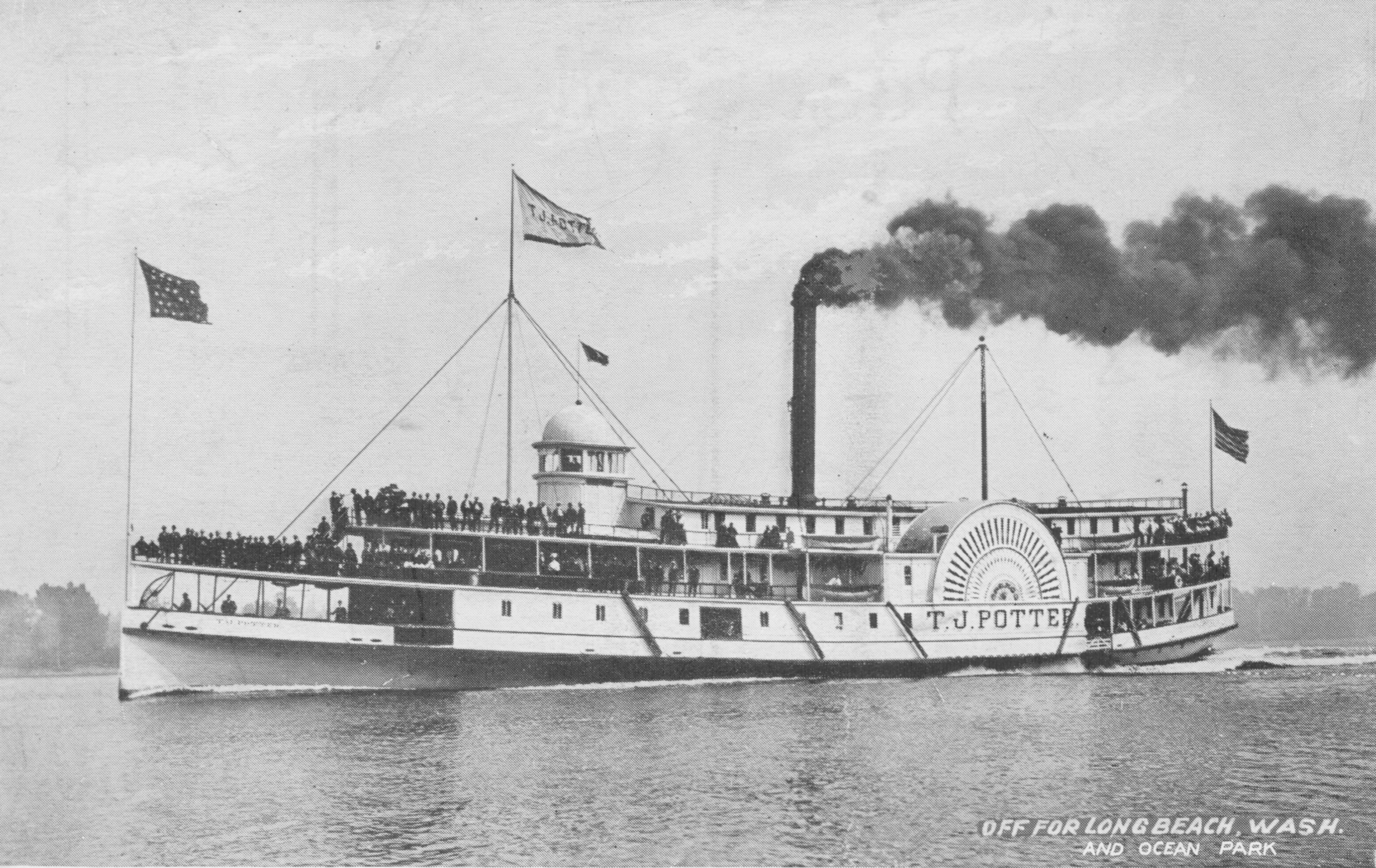 T.J. Potter (sidewheeler). This is from an old postcard. Writing on the back of the card is dated August 28,1912. There is no copyright on the card. The vessel depicted was taken out of service permanently in 1916.